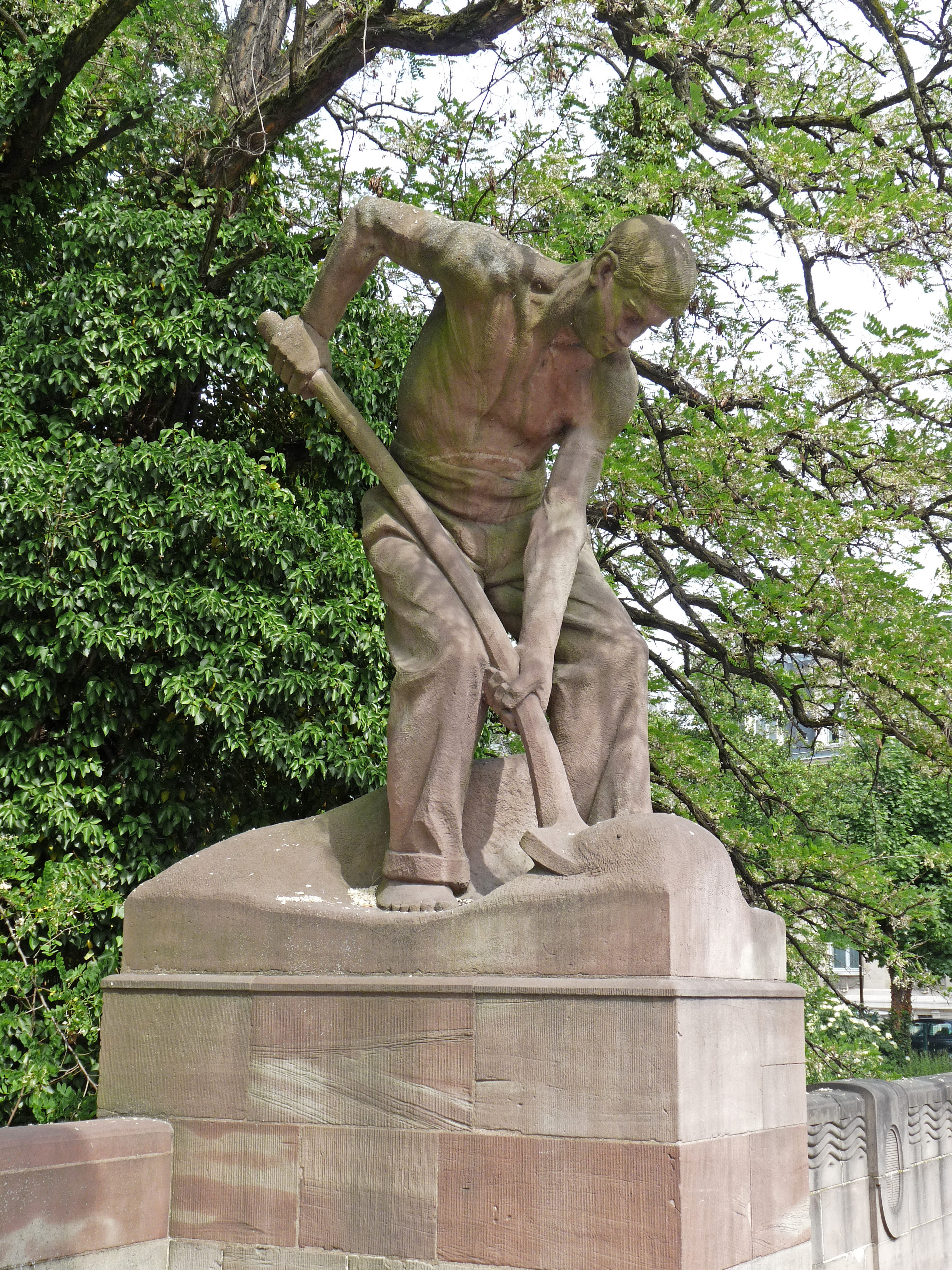 Le Pelleteur (The Shoveler), a statue by Alfred Marzolff on the Kennedy Bridge in Strasbourg.